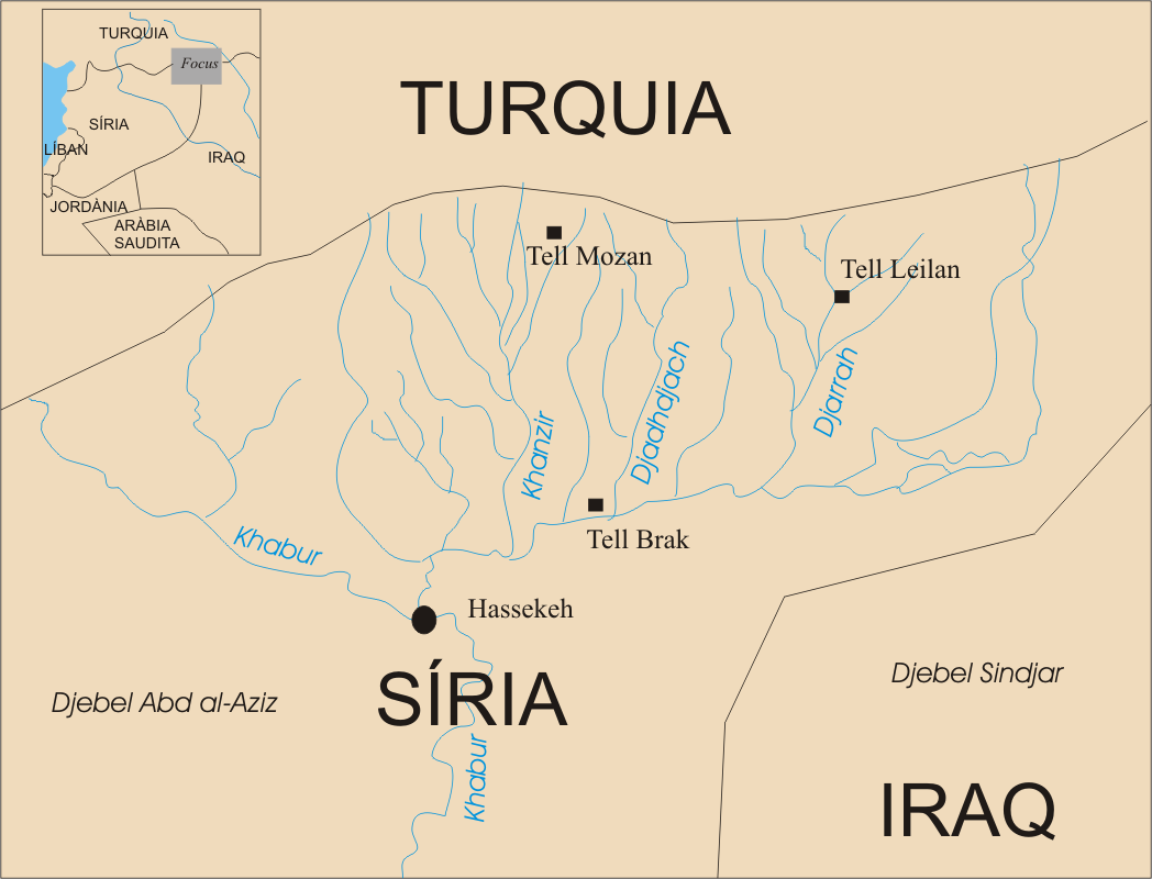 Khabul Valley